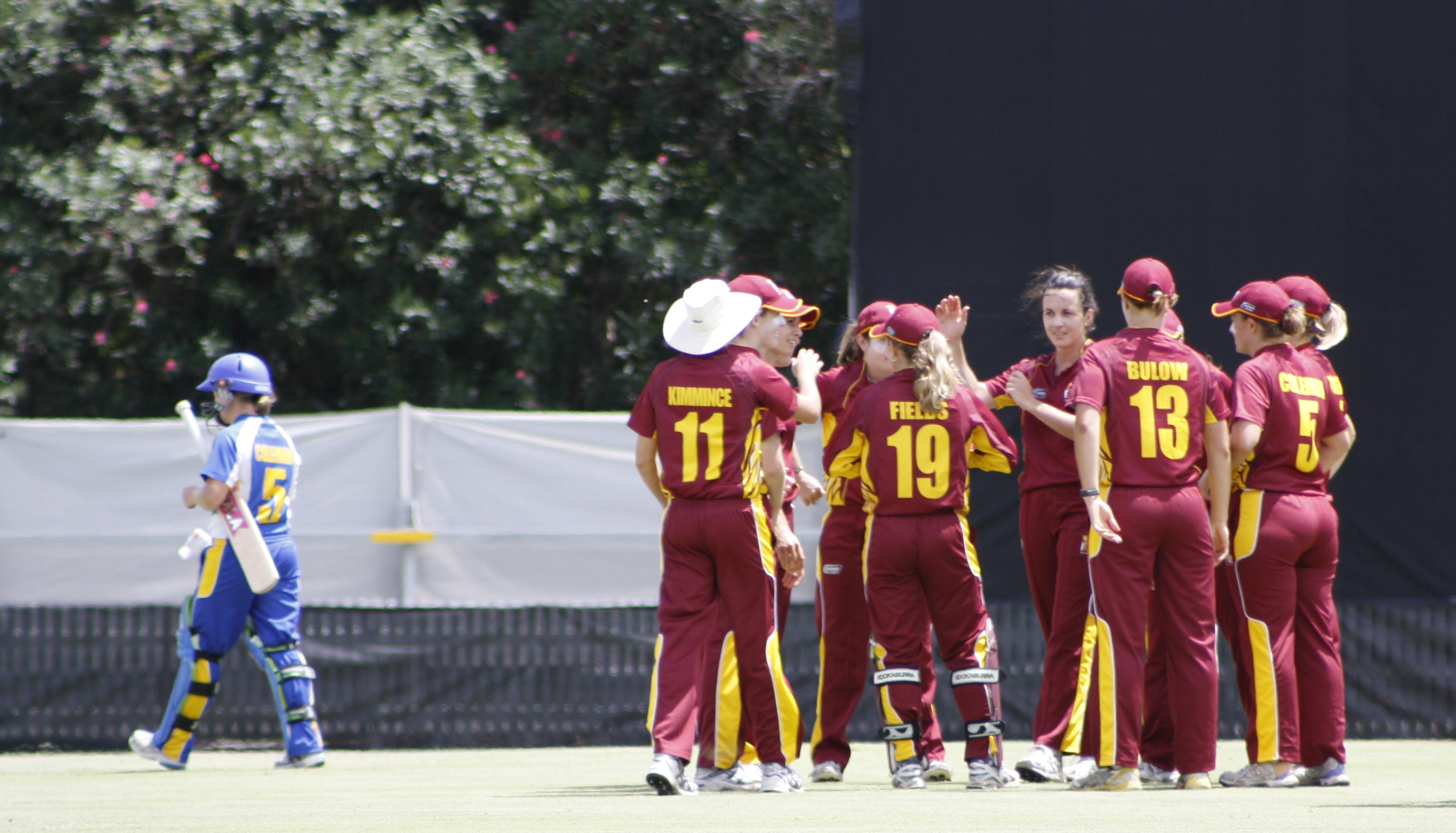 The Queensland Fire cricket team celebrate taking the wicket of an ACT Meteors player.